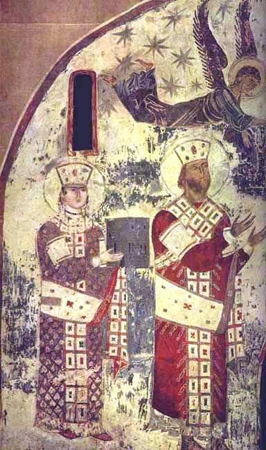 Mural from Vardzia depicting George III of Georgia and his daughter Queen Thamar.